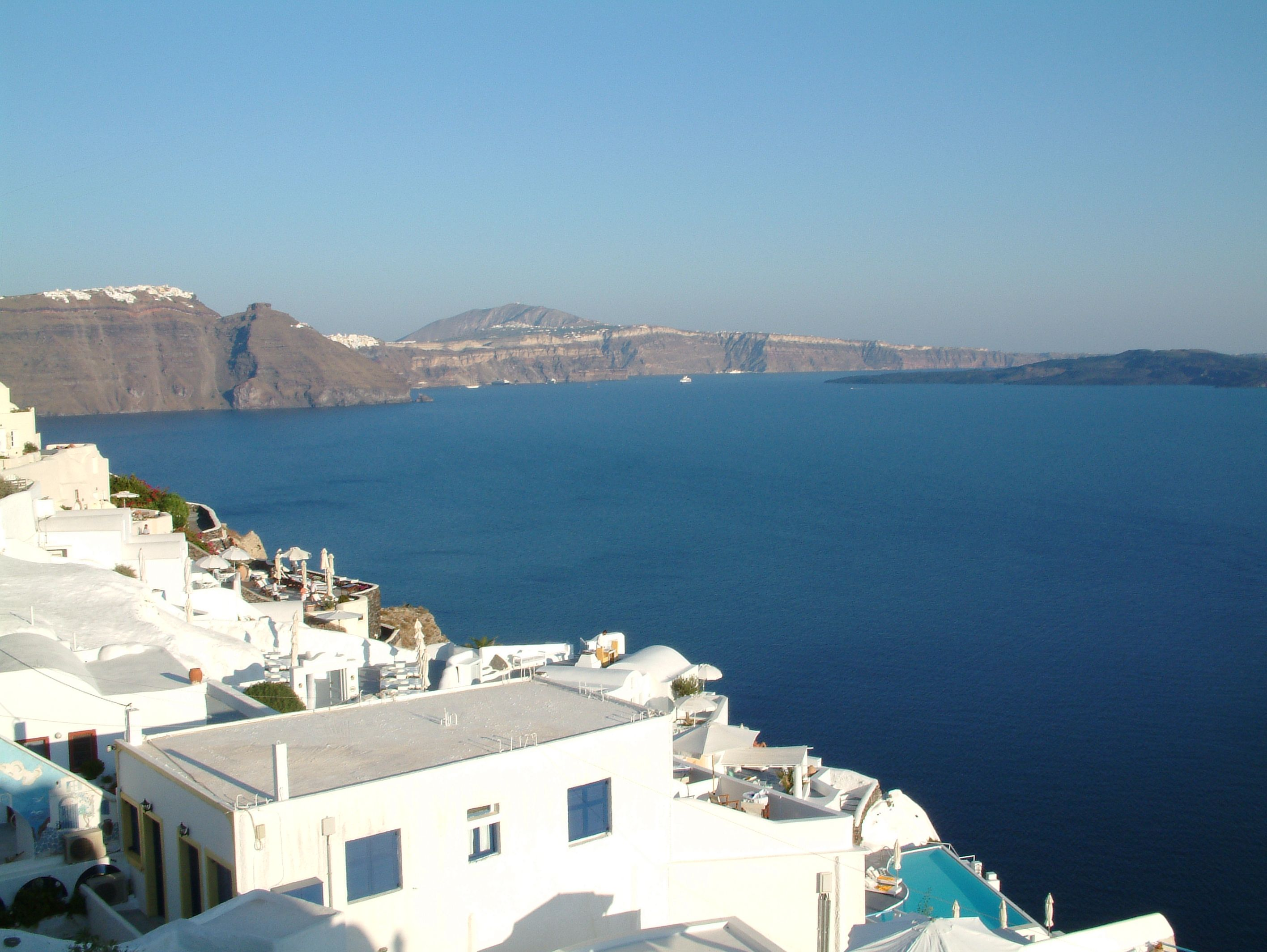 View from Oia towards the caldera